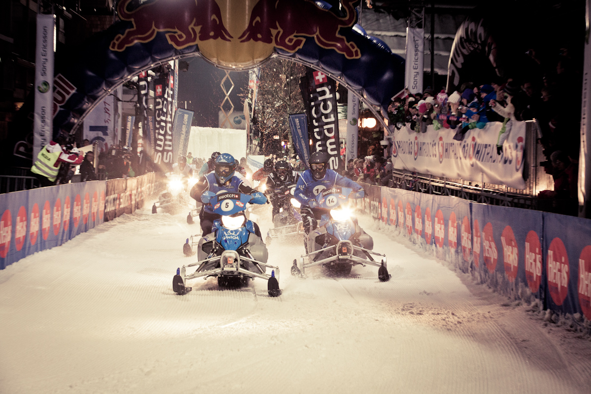 Snow Mobile Race